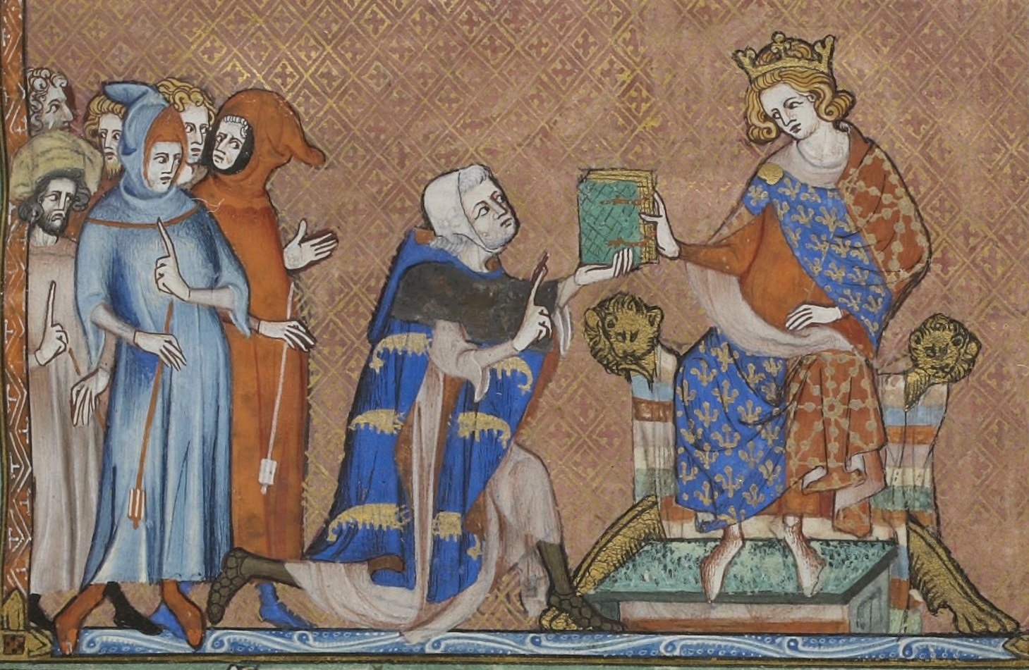 Jean de Joinville presenting his book Life of Saint Louis to the king Louis X (miniature, 14th century).